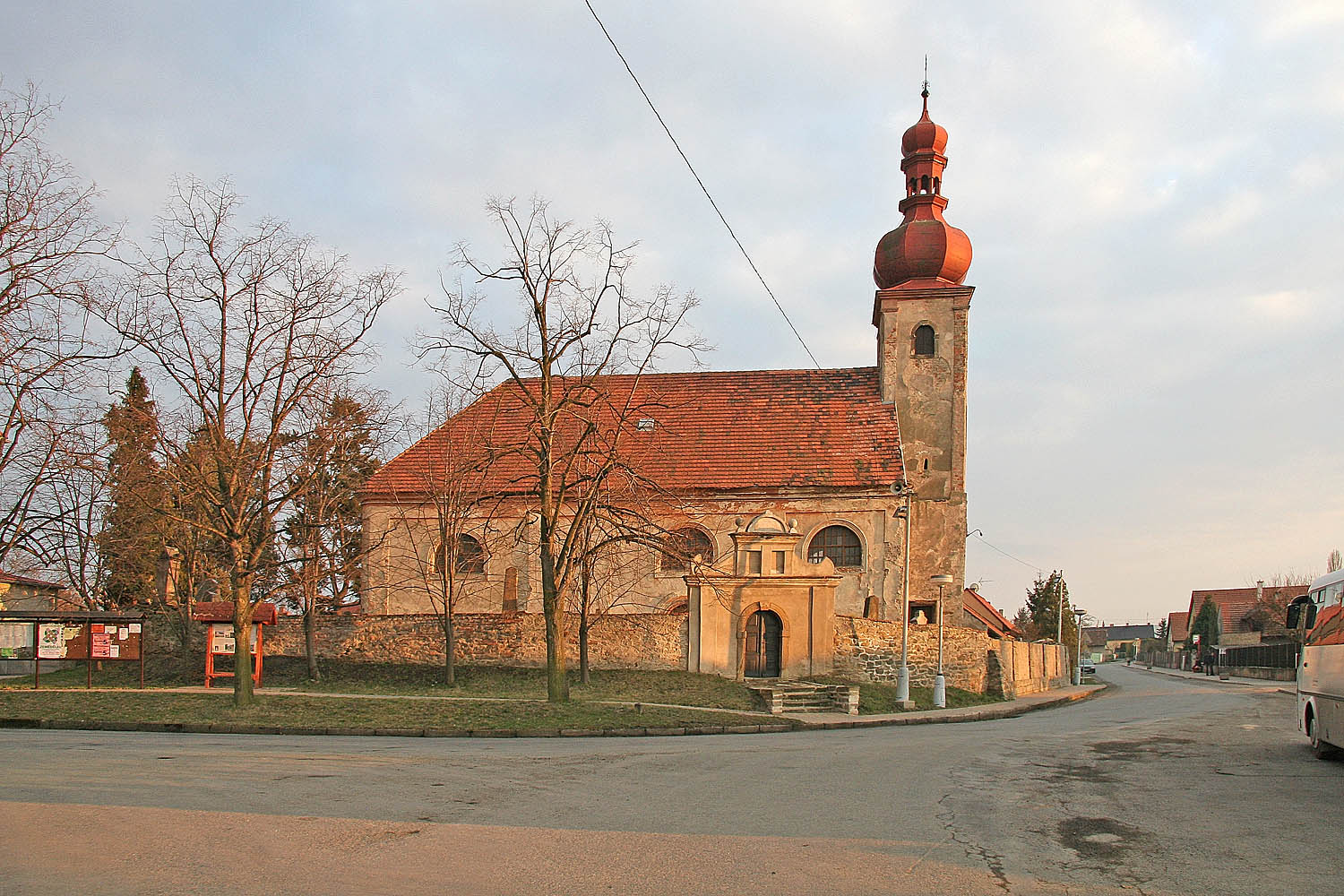 Sain Martin church in Rostoklaty, Kolín District, Czech Republic